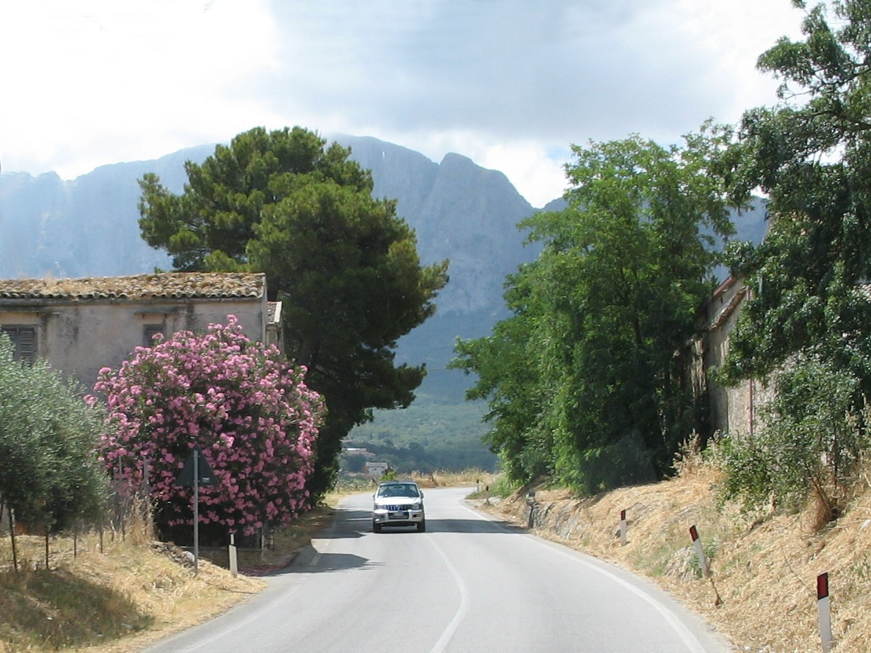 The Road to Corleone and Rocca Busambra